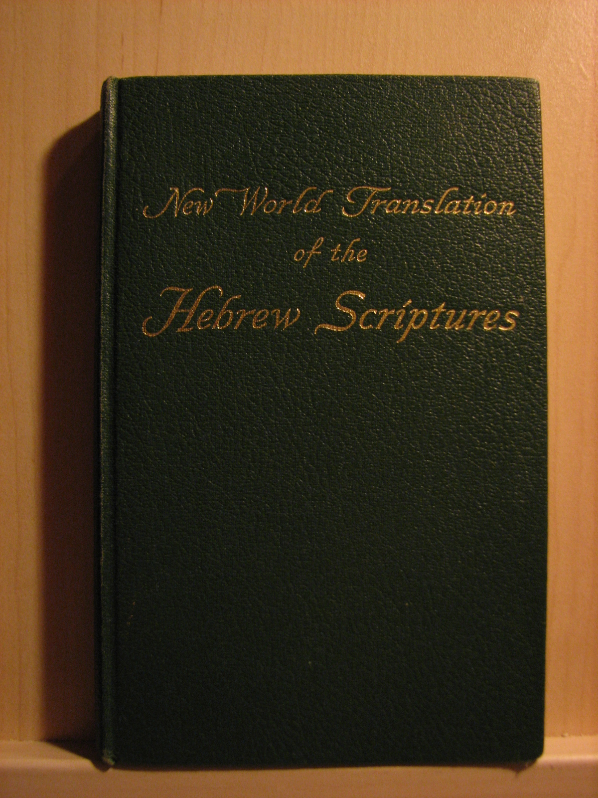 New World Translation of the Hebrew Scriptures by the Watch Tower Bible & Tract Society, New York